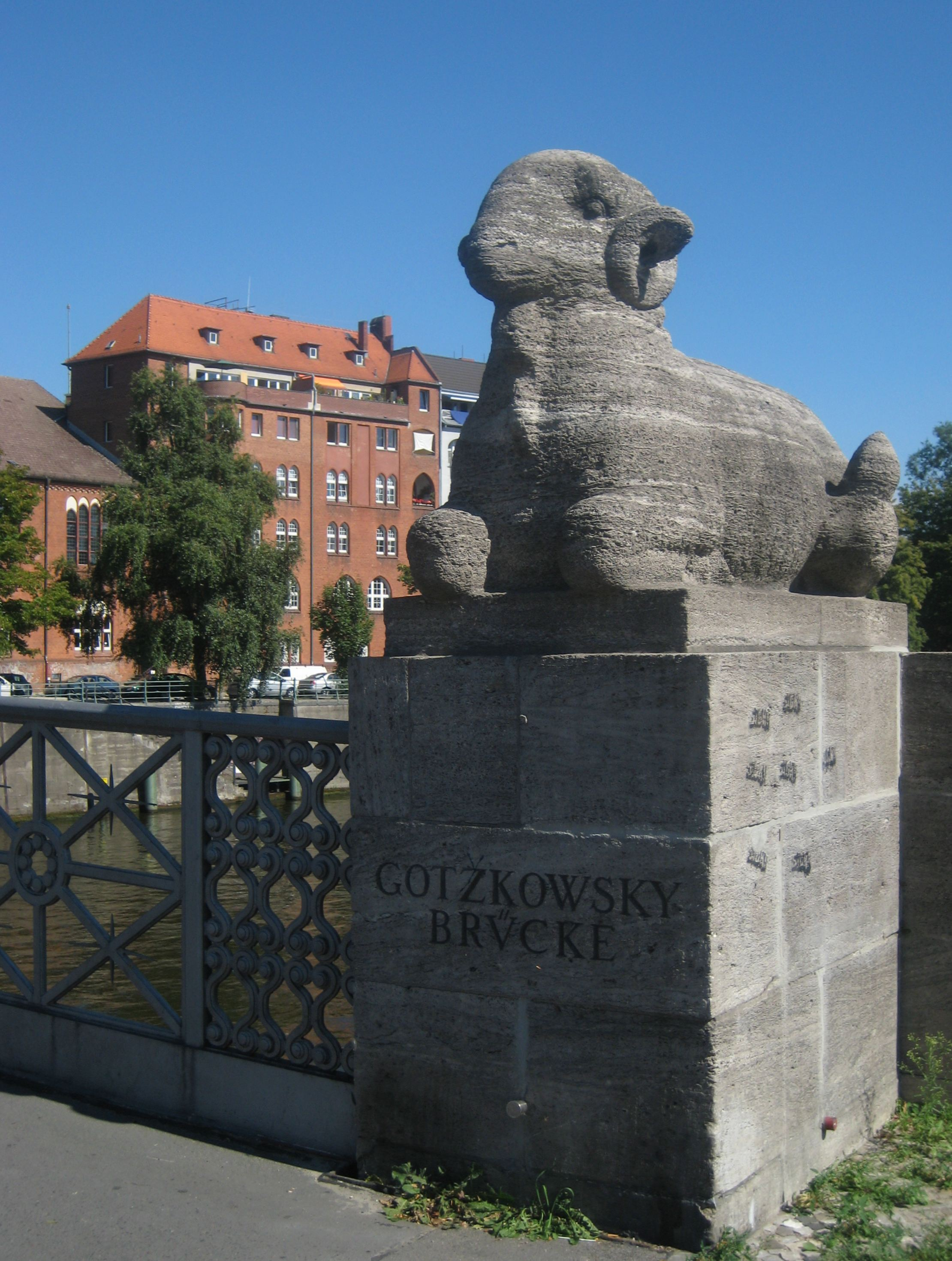 Ram sculpture by Walter Schmarje (1911) on Gotzkowskybrücke over the river Spree in Berlin. Background: Rectory and Protestant Church of the Saviour.